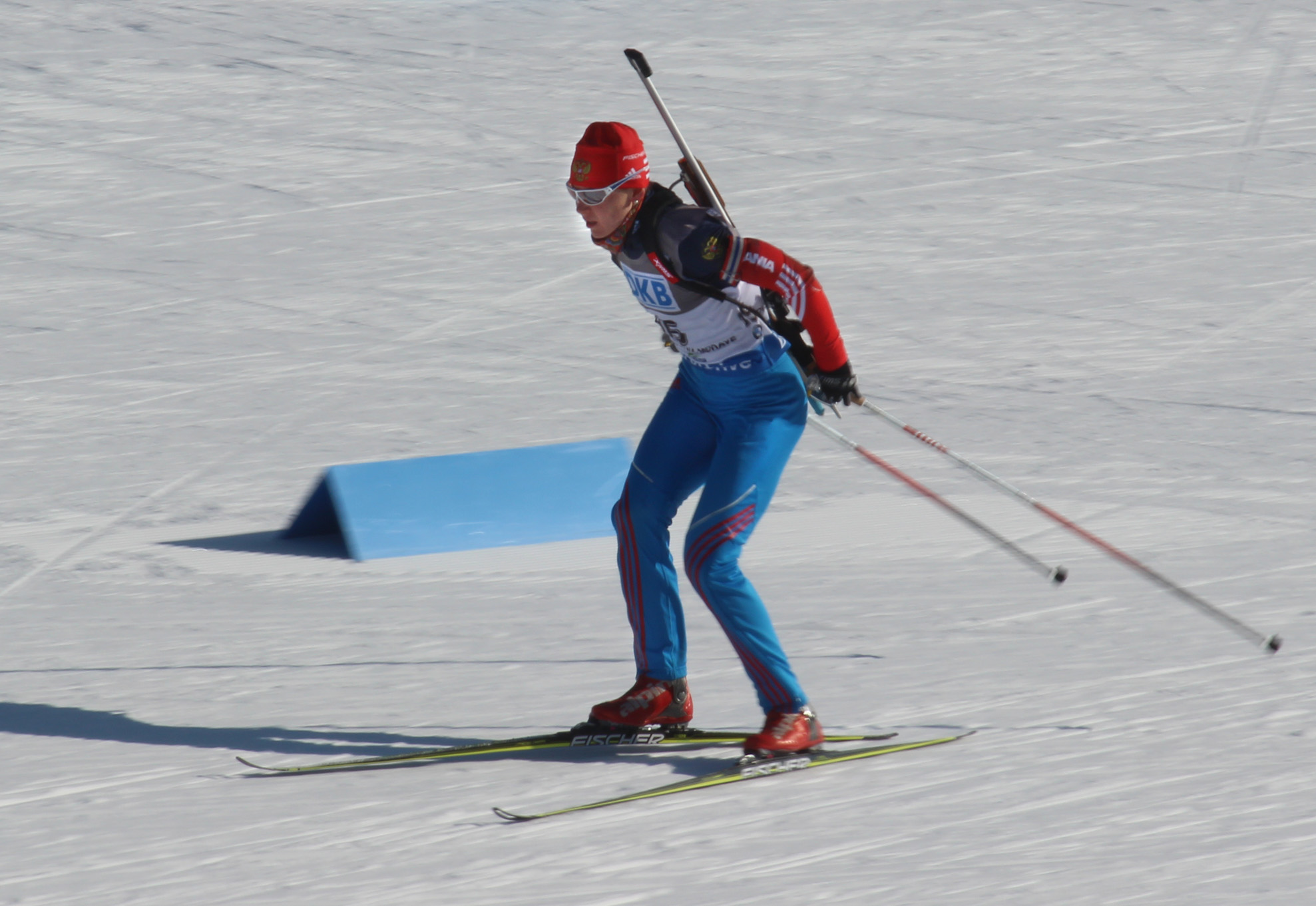 Ekaterina Glazyrina at Biathlon World Cup 2015 in Nové Město, Czech Republic – sprint women